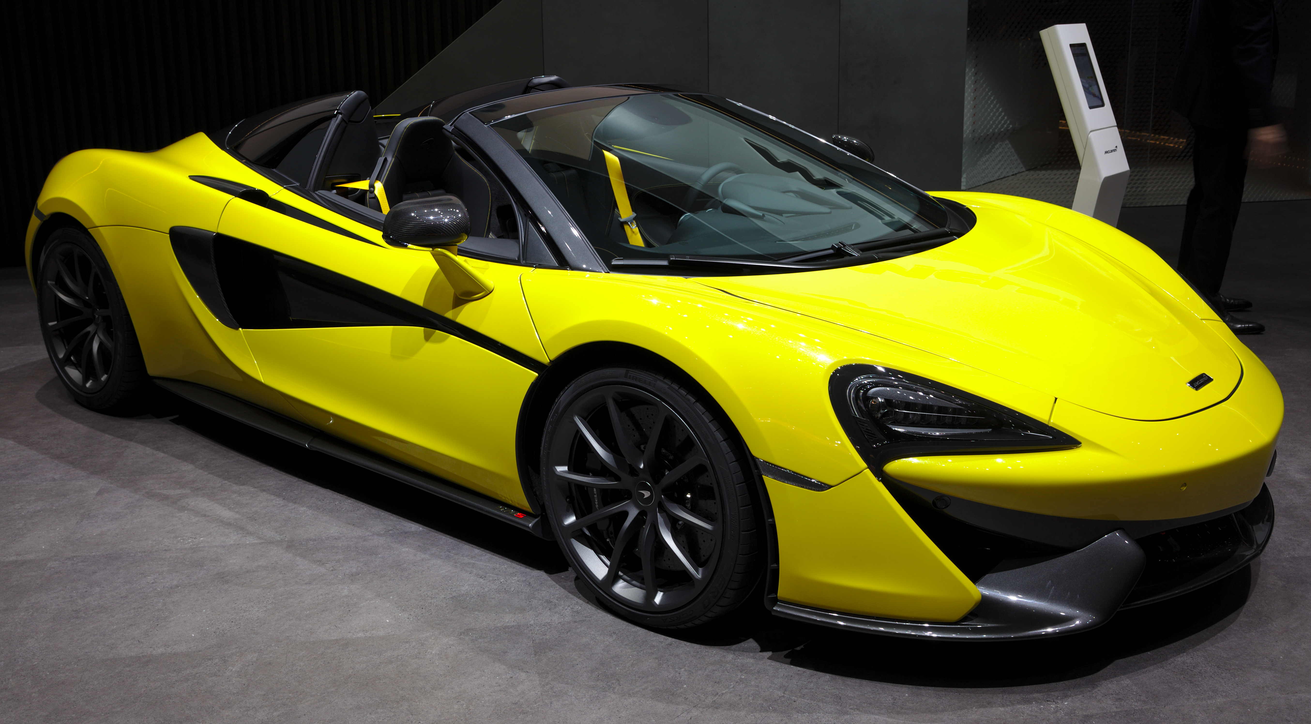 McLaren 570S Spider at Geneva Motor Show 2019